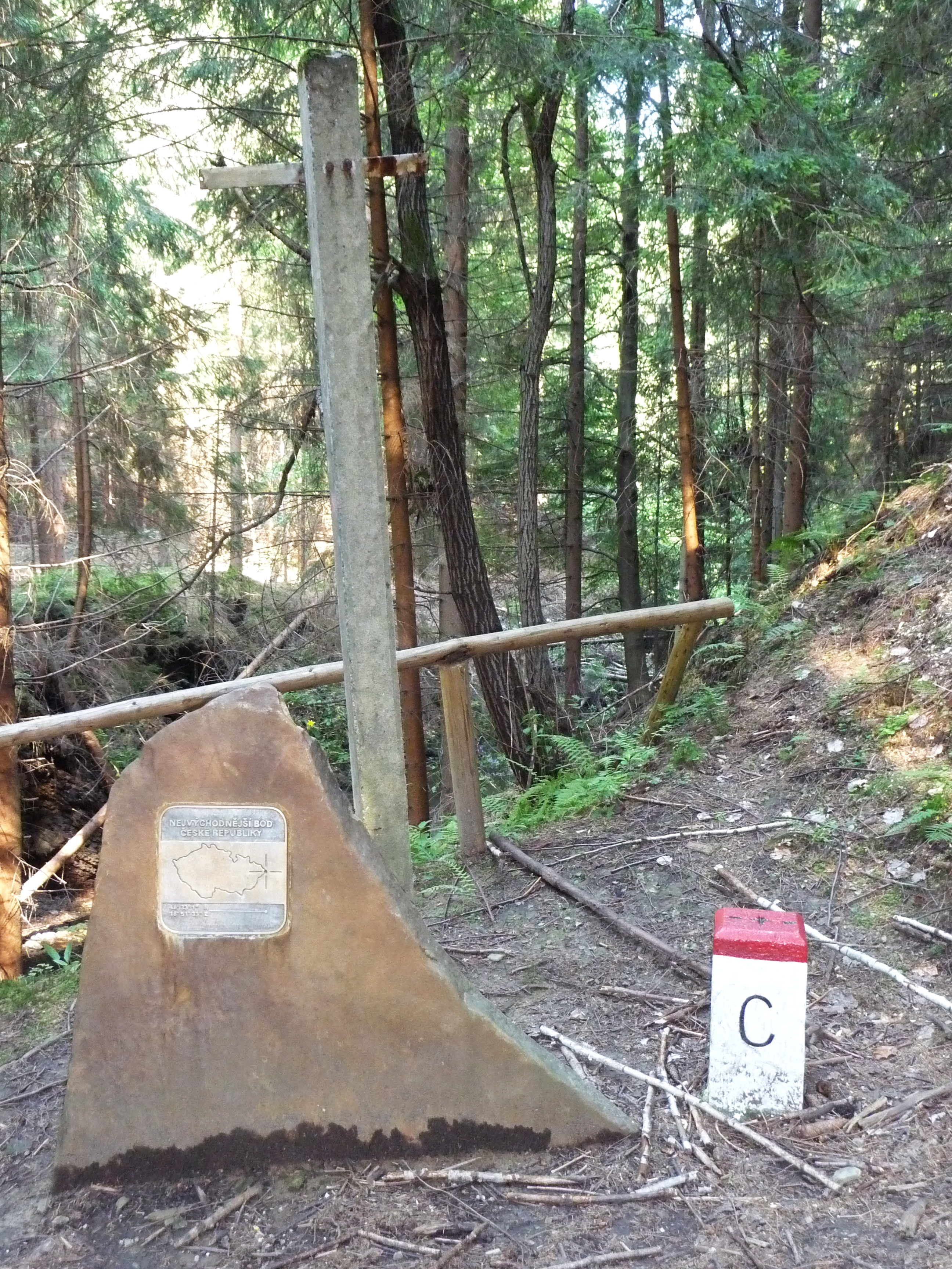 Easternmost point of Czechia.